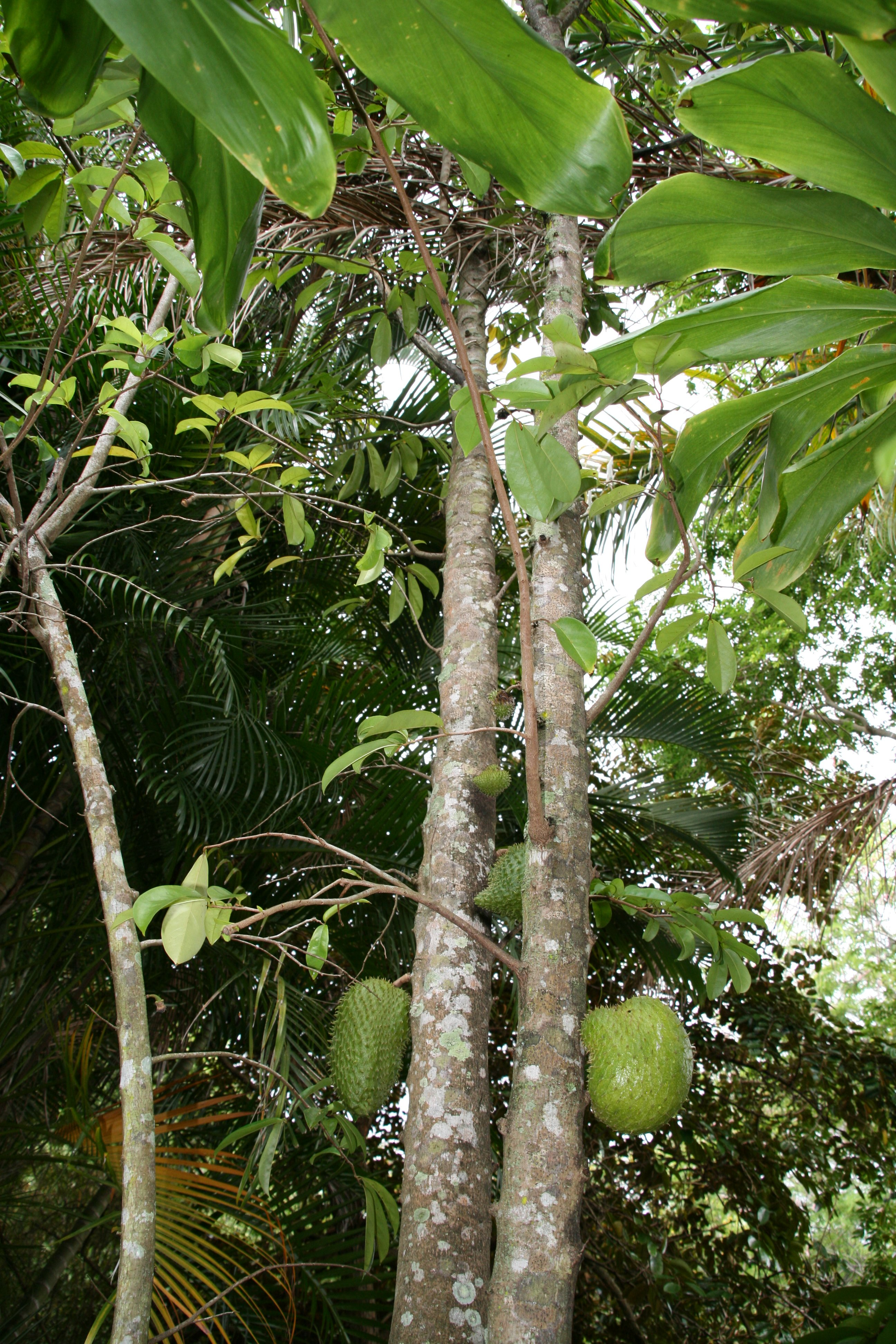 Soursop tree, from the Papuakeikaha arboretum, island of Ua Huka, Marquesas Islands, French Polynesia